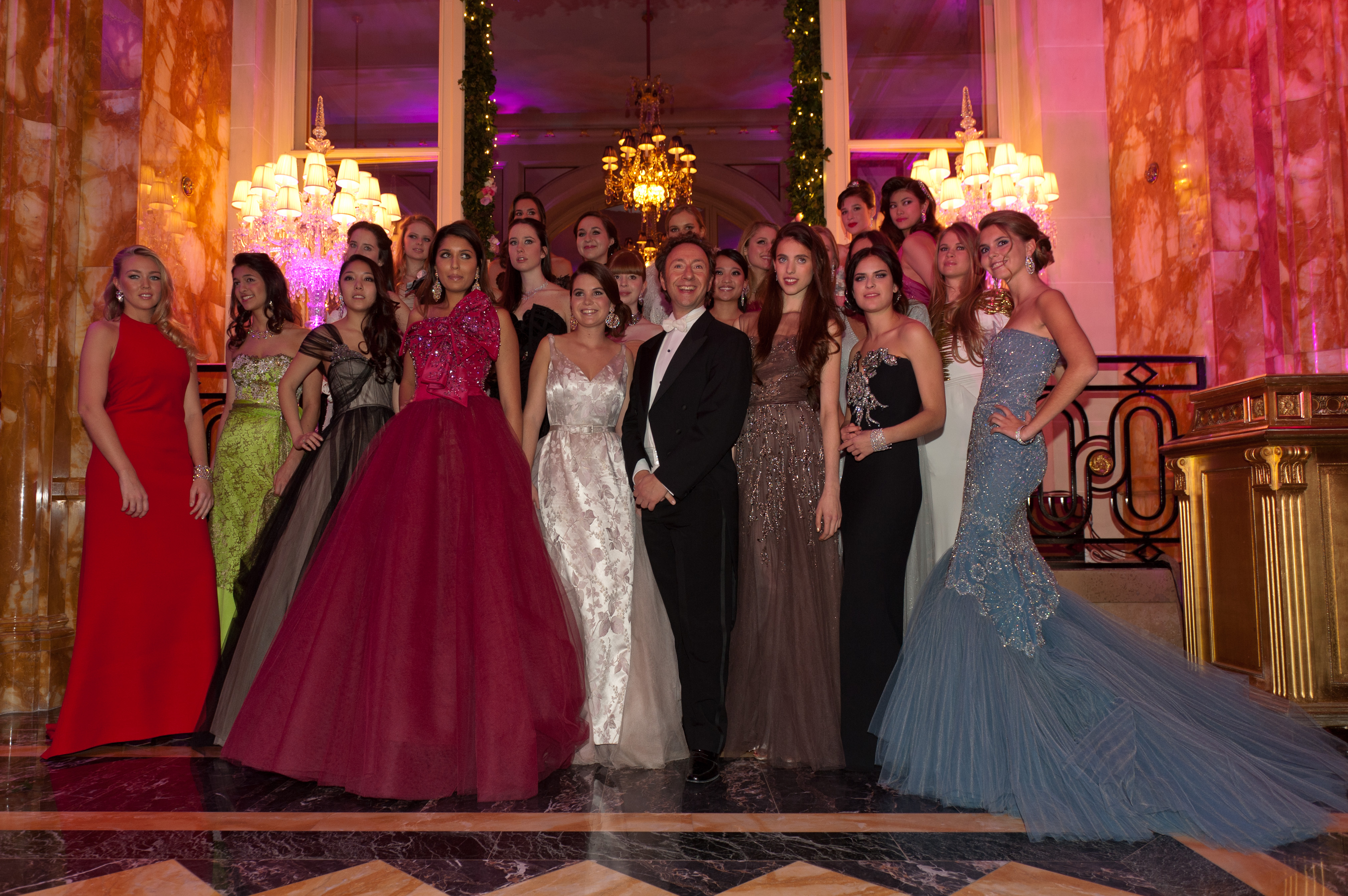 Stephane Bern and the Debs 2011 at le Bal des débutantes in Paris